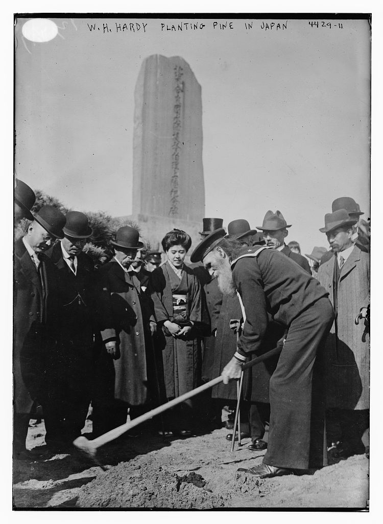 Bain News Service,, publisher. W.H. Hardy planting pine in Japan [between ca. 1915 and ca. 1920] 1 negative : glass ; 5 x 7 in. or smaller. Notes: Title from unverified data provided by the Bain News Service on the negative. Forms part of: George Grantham Bain Collection (Library of Congress). Subjects: Jap. Format: Glass negatives. Repository: Library of Congress, Prints and Photographs Division, Washington, D.C. 20540 USA, General information about the Bain Collection is available at Higher resolution image is available (Persistent URL): Call Number: LC-B2- 4429-11